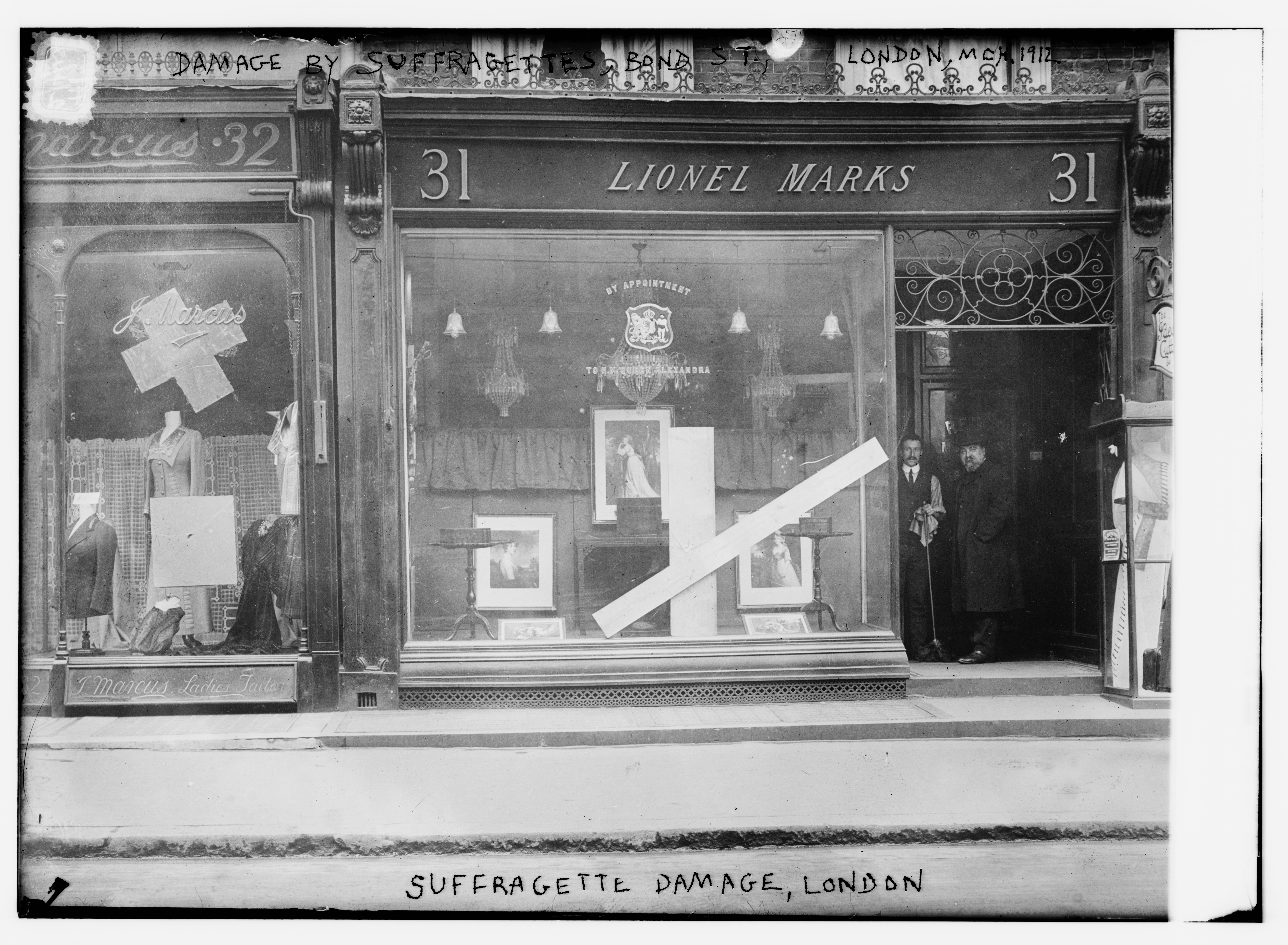 Title: Damage by suffragettes, London, Mar. 1912, Bond St. Abstract/medium: 1 negative : glass ; 5 x 7 in. or smaller.